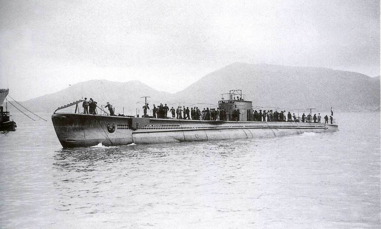 RIN Ambra launch